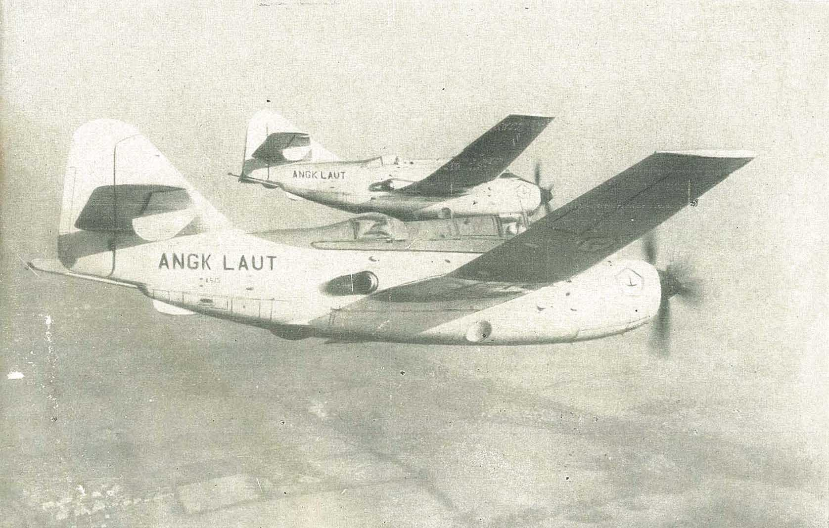 Indonesian Navy aircraft